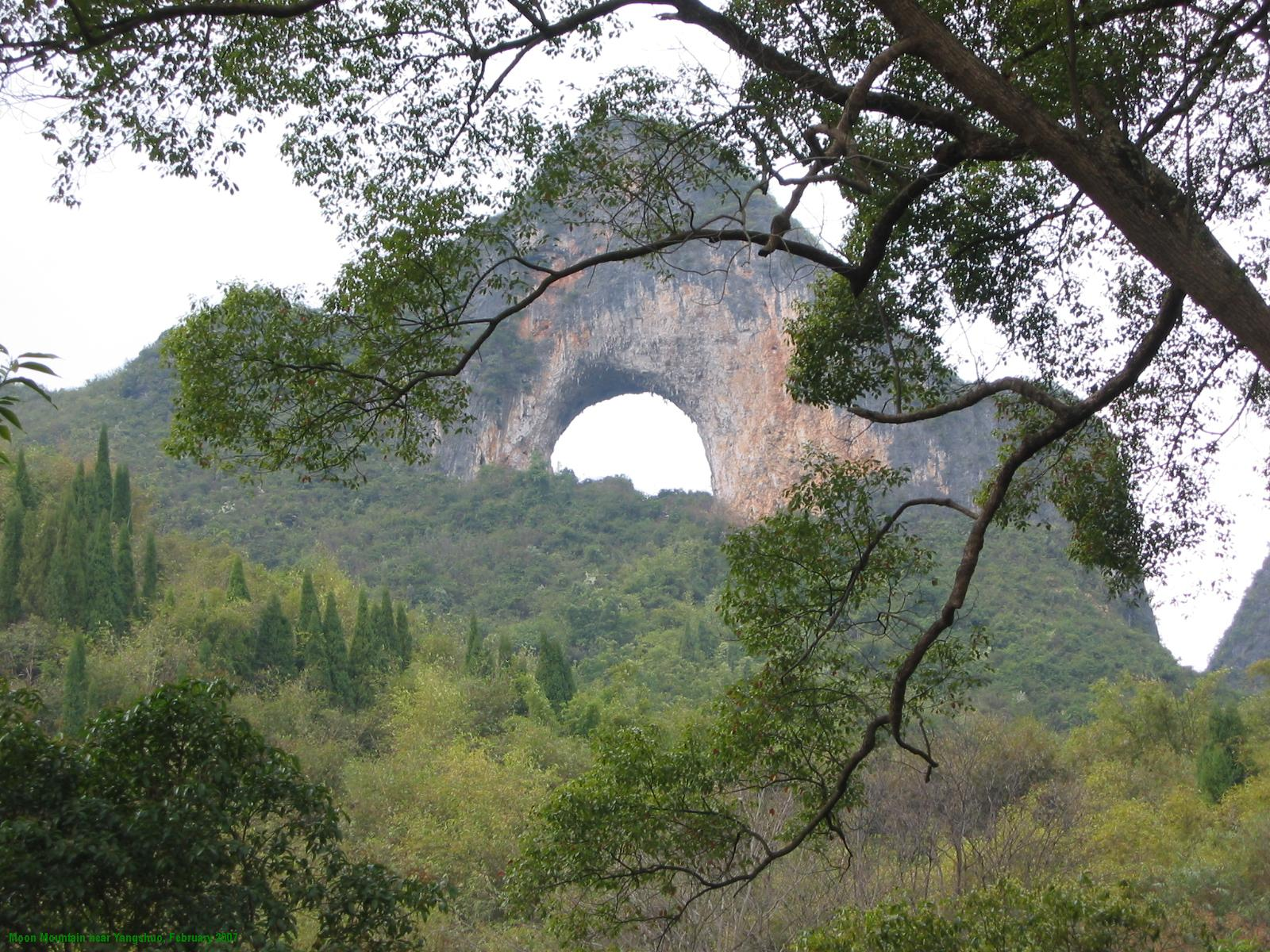 Moon Mountain near Yangshuo, seen from below